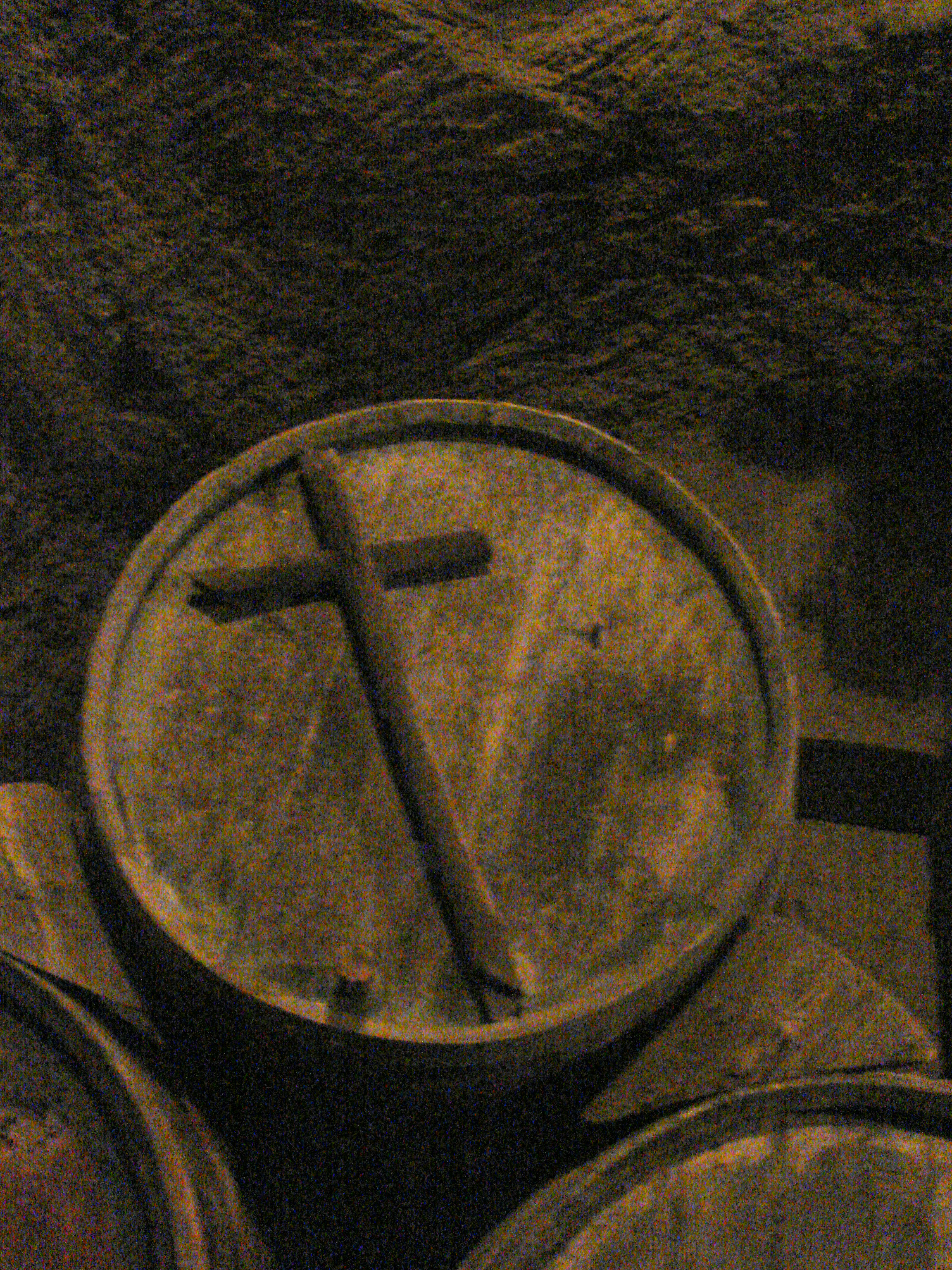 A wine barrel with a cross on it designating that it is being used to aged the Italian dessert wine Vin Santo.